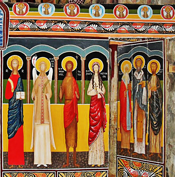 Icons Bilintsi monastery BG